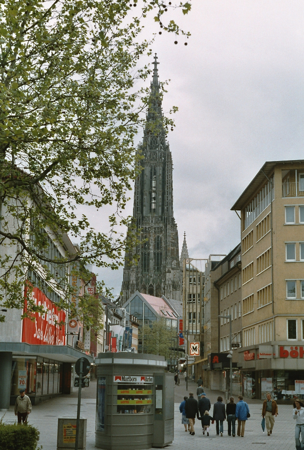 Ulmer Muenster / Cathedral in Ulm, Germany. Gothic church, highest church tower till today.